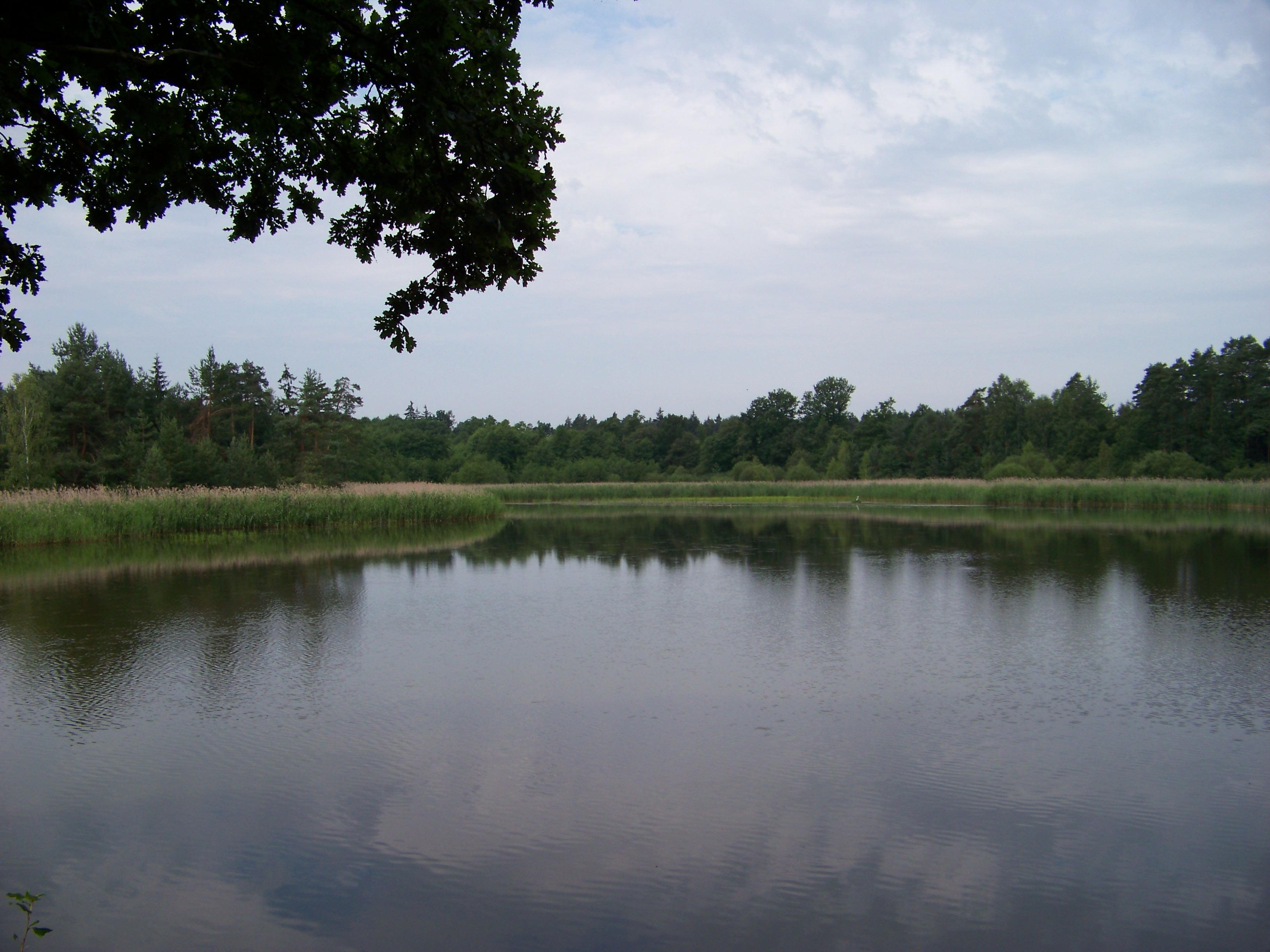 Horní Jelení, Pardubice District, Pardubice Region, the Czech Republic. Hanzlíkovec pond. - OpenStreetMap(Info)